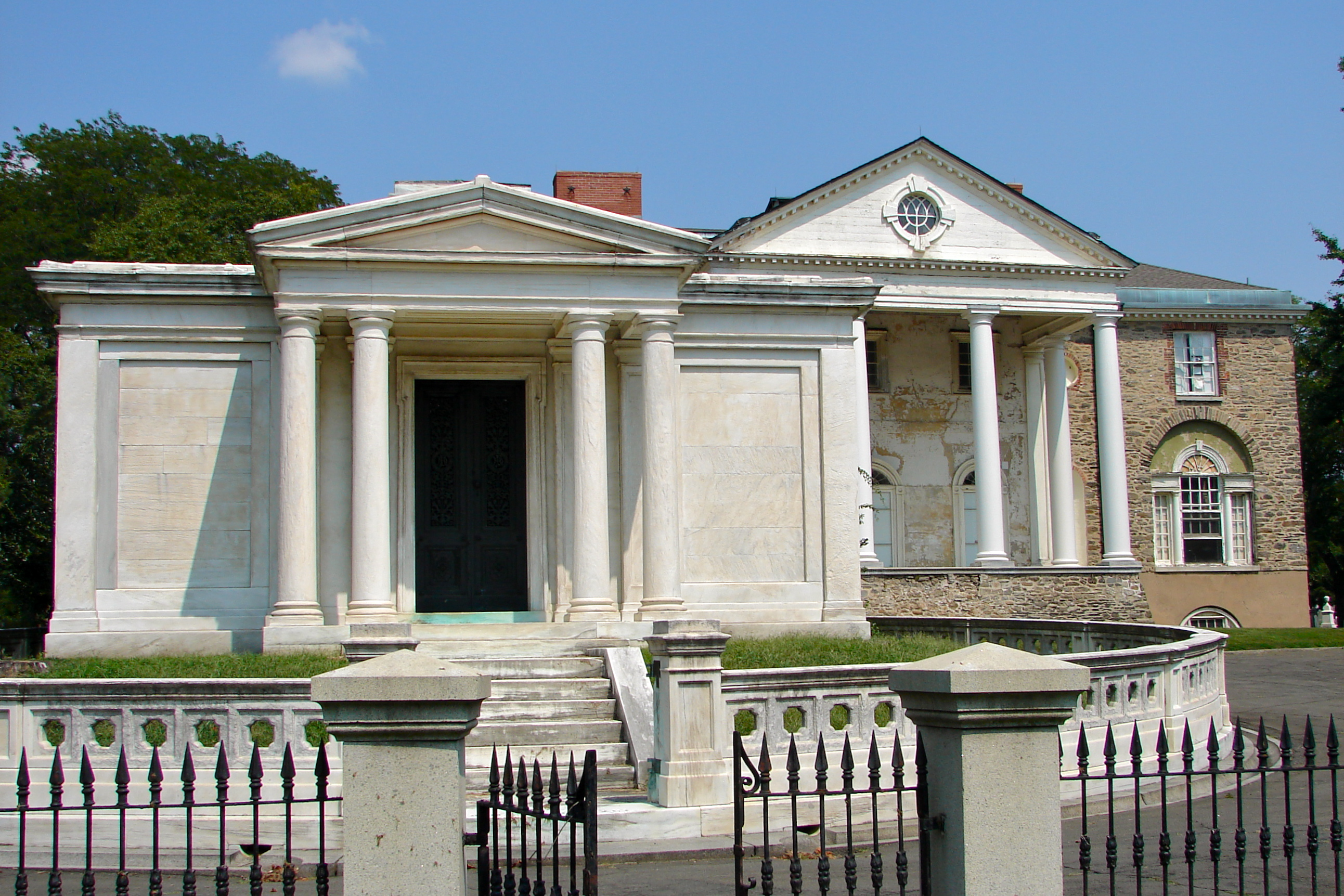 Mausoleum of Francis M. Drexel at the Woodlands Cemetery in Philadelphia. Drexel was the SENIOR partner of JP Morgan and the leading financier of his day. Woodlands is a NRHP site and a National Historic Landmark.